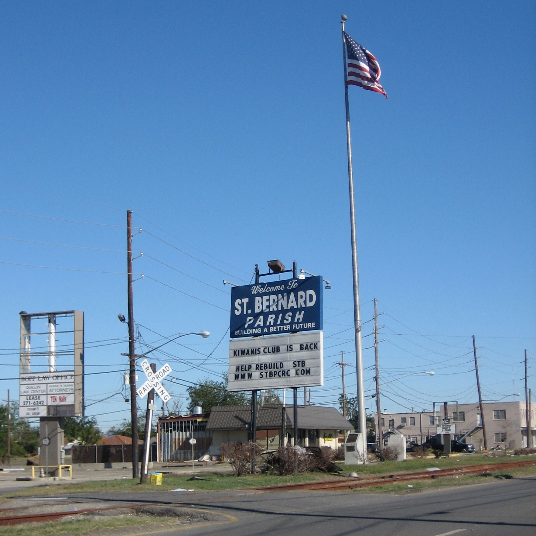 Entrance sign for St. Bernard Parish, Louisiana, on St. Claude Avenue -- which changes its name to St. Bernard Highway at the Parish line-- just past lower edge of Lower 9th Ward of New Orleans. Photo by Infrogmation, November 2005